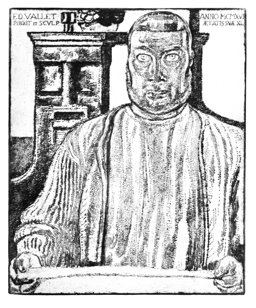 Self portrait of Edouard Vallet